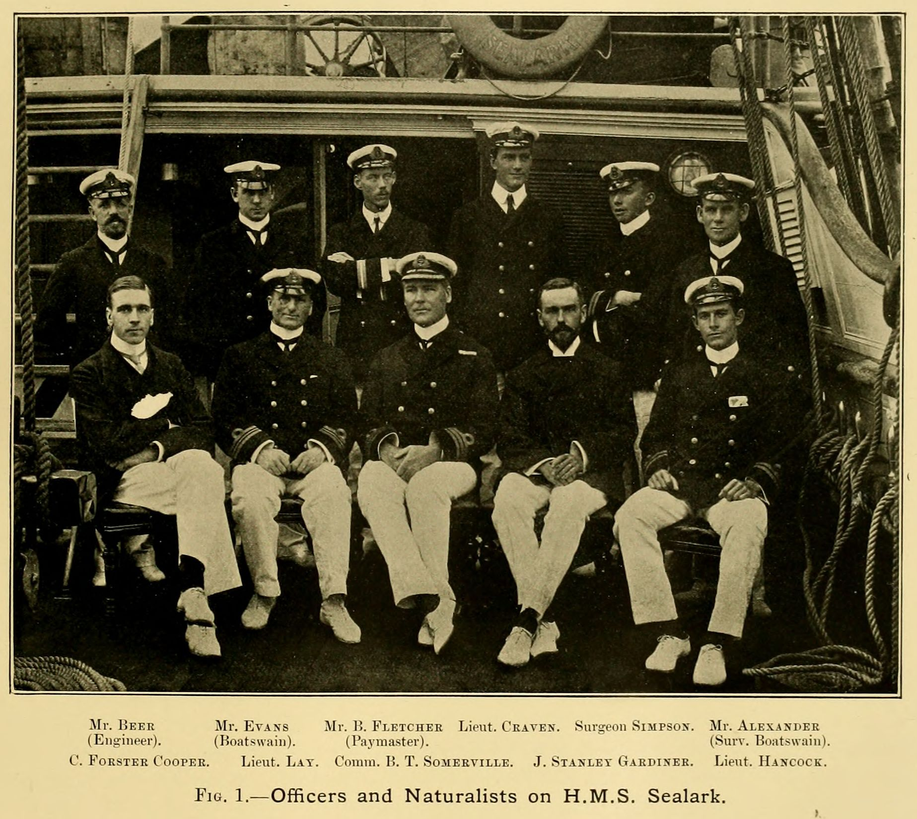 Officers and naturalists of the HMS Sealark on the Percy Sladen Trust Expedition to the Indian Ocean, 1905